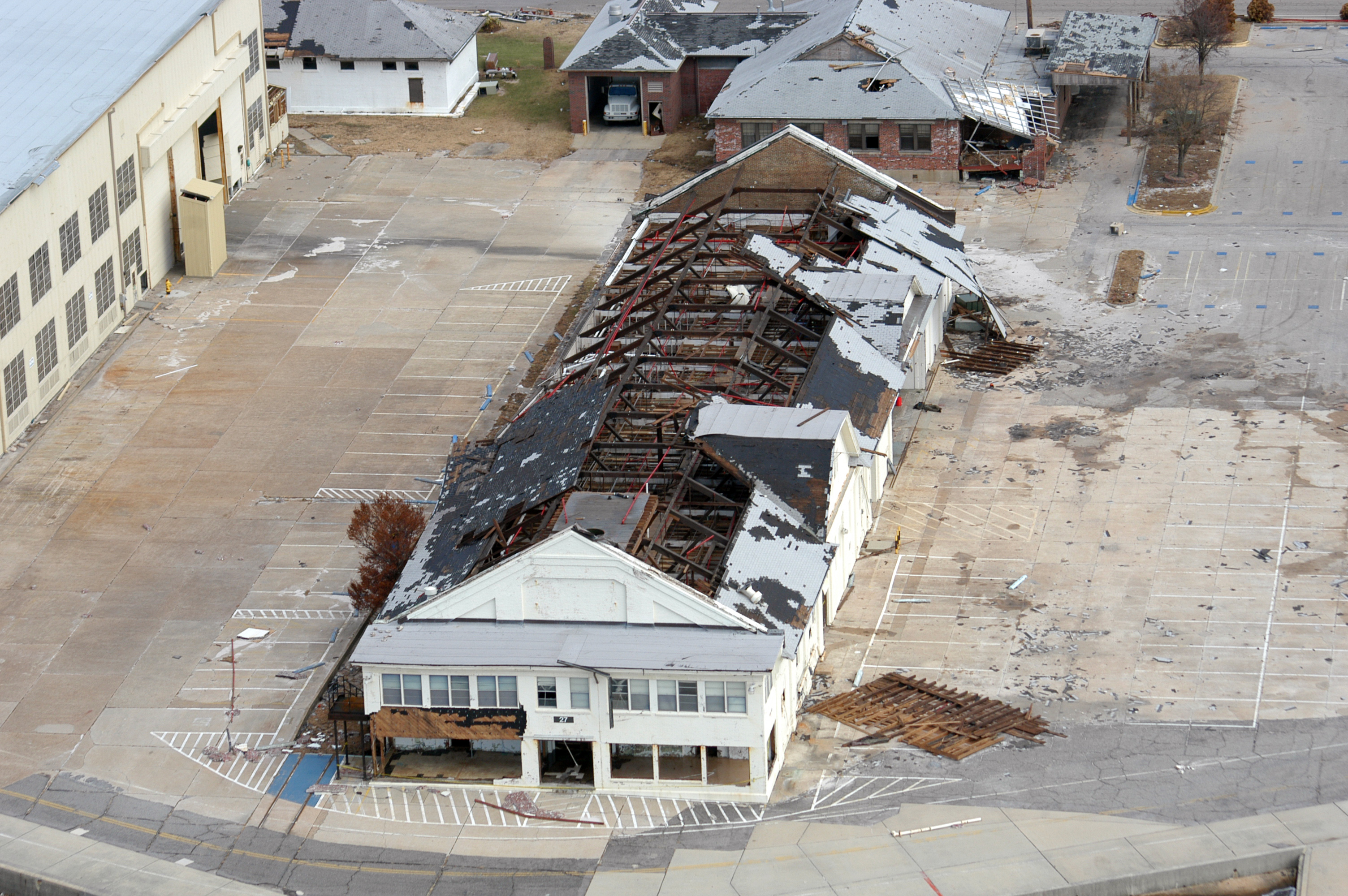 Naval Air Station Pensacola, Fla. (Sept. 22, 2004) - Building 27, Naval Air Station Pensacola Photo-Lab, and the Water Survival Equipment Storage Building, show considerable amounts of roof damage after Hurricane Ivan slammed into the base causing millions of dollars in damage. Navy officials reported that nearly 90 percent of the buildings on the base suffered significant damage. Ivan made landfall at Gulf Shores, Ala., at approximately 3:15 a.m. EST Sept. 16, with winds of 130 MPH. U.S. Navy Photo (RELEASED)